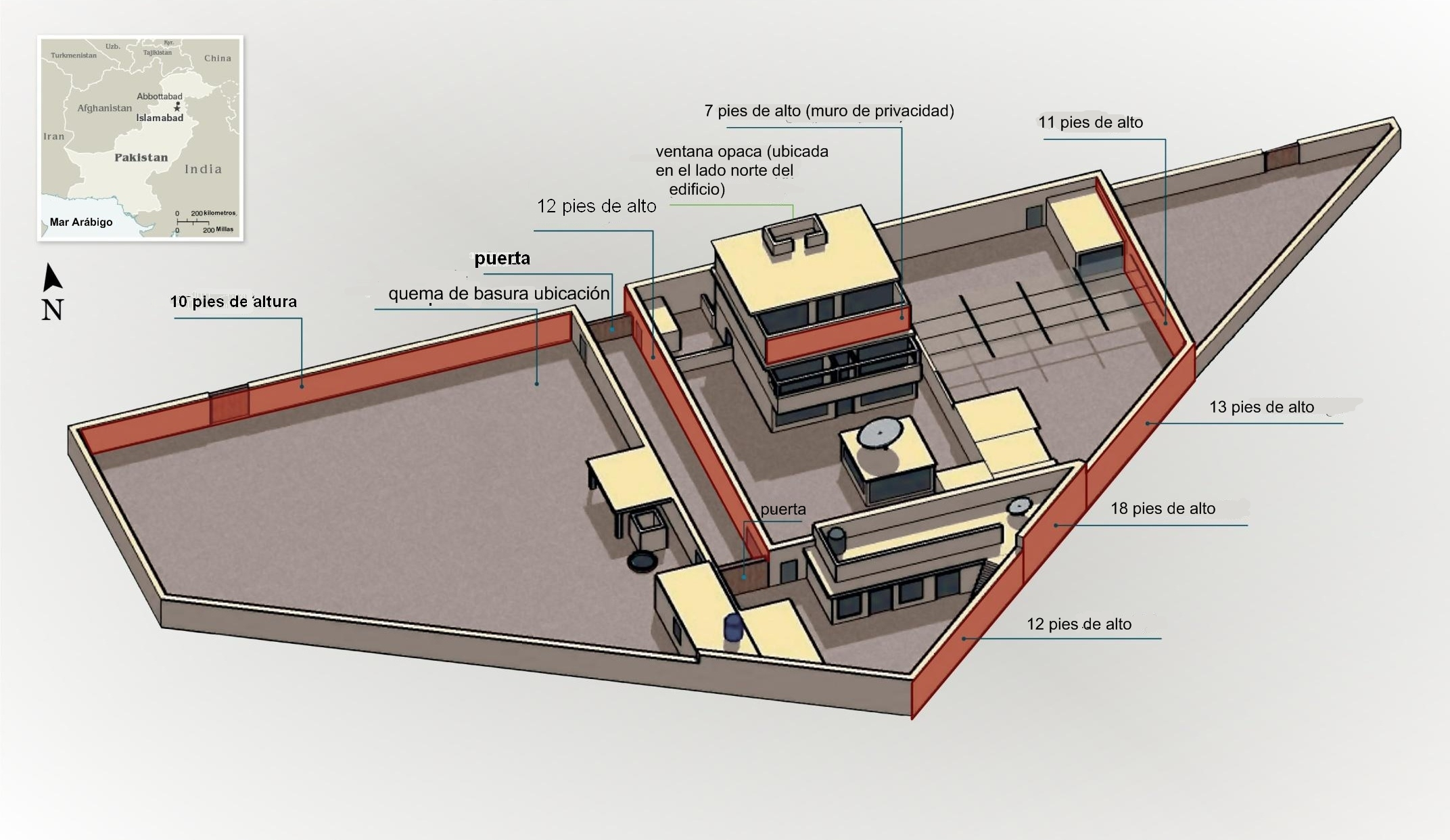 Hideout of Osama bin Laden, the location of his death, in Abbottabad, Pakistan; compound located at coordinates listed below.